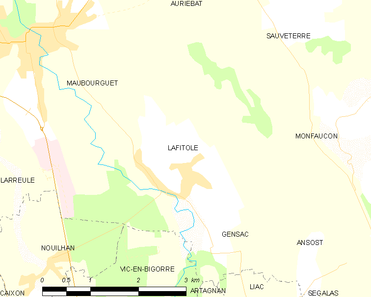 Map of French municipality